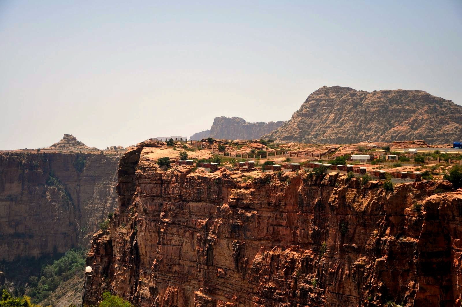 Habala Valley near Abha, Saudi Arabia. The picture is taken while riding a cable car